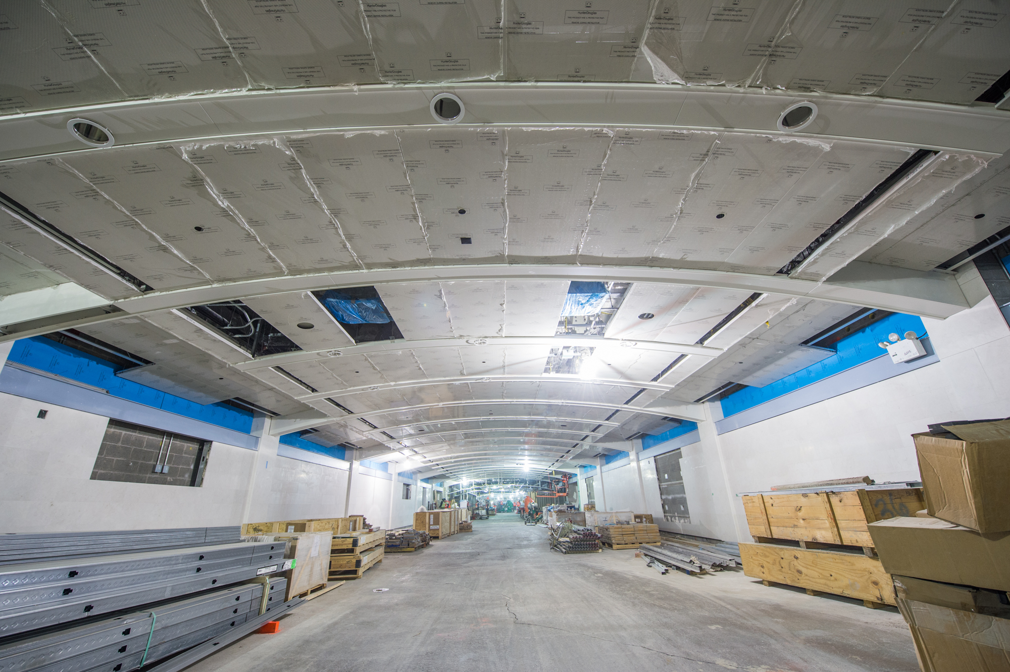 Ceiling support system, ceiling tiles and wall tiles in the future LIRR concourse